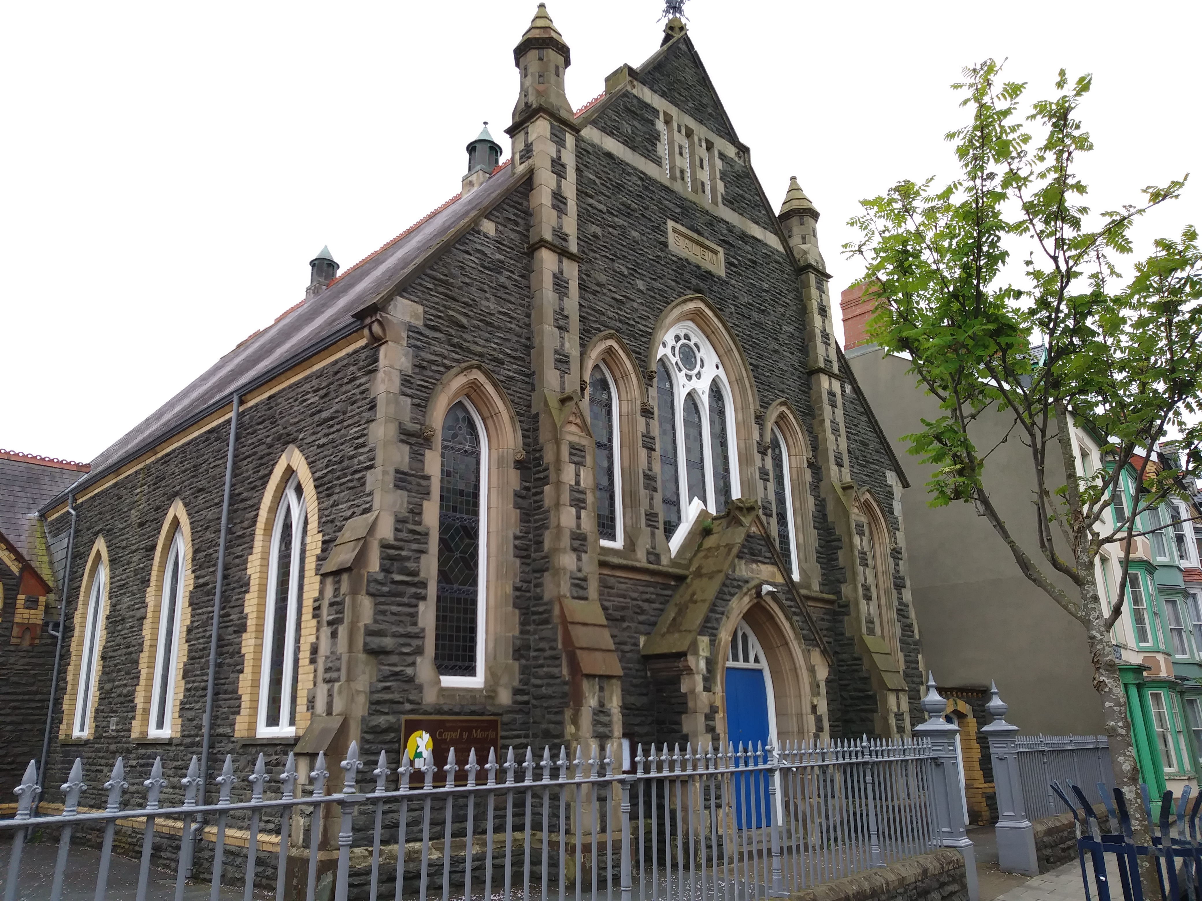 Capel y Morfa, Aberystywth